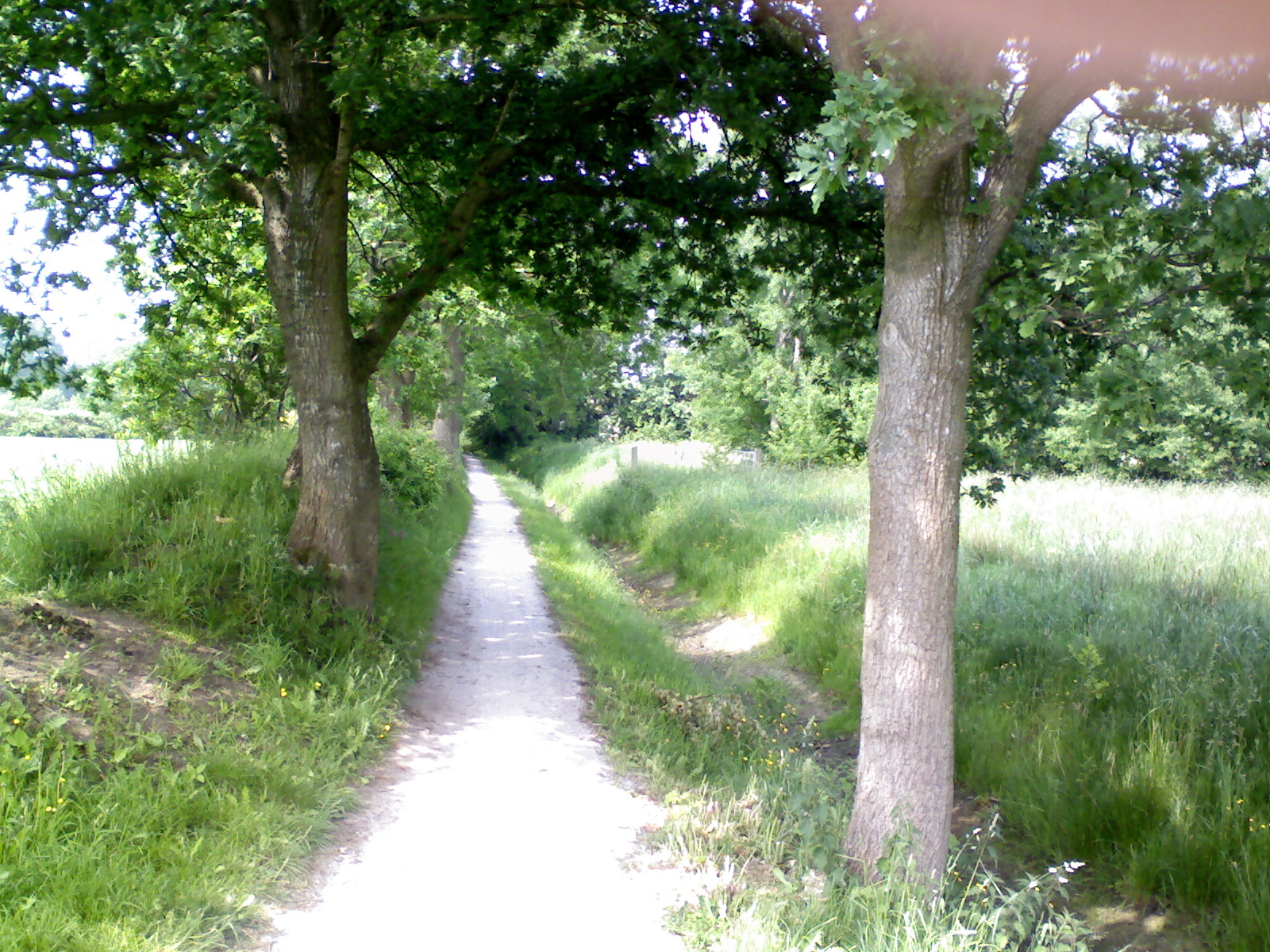 De Swadde, border between municipality of Kollumerland/Dantumadeel and Achtkarspelen.